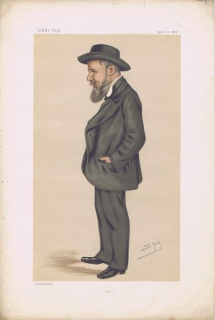 Statesmen No.271: Caricature of Mr Joseph Cowen MP. Caption reads: "Joe"